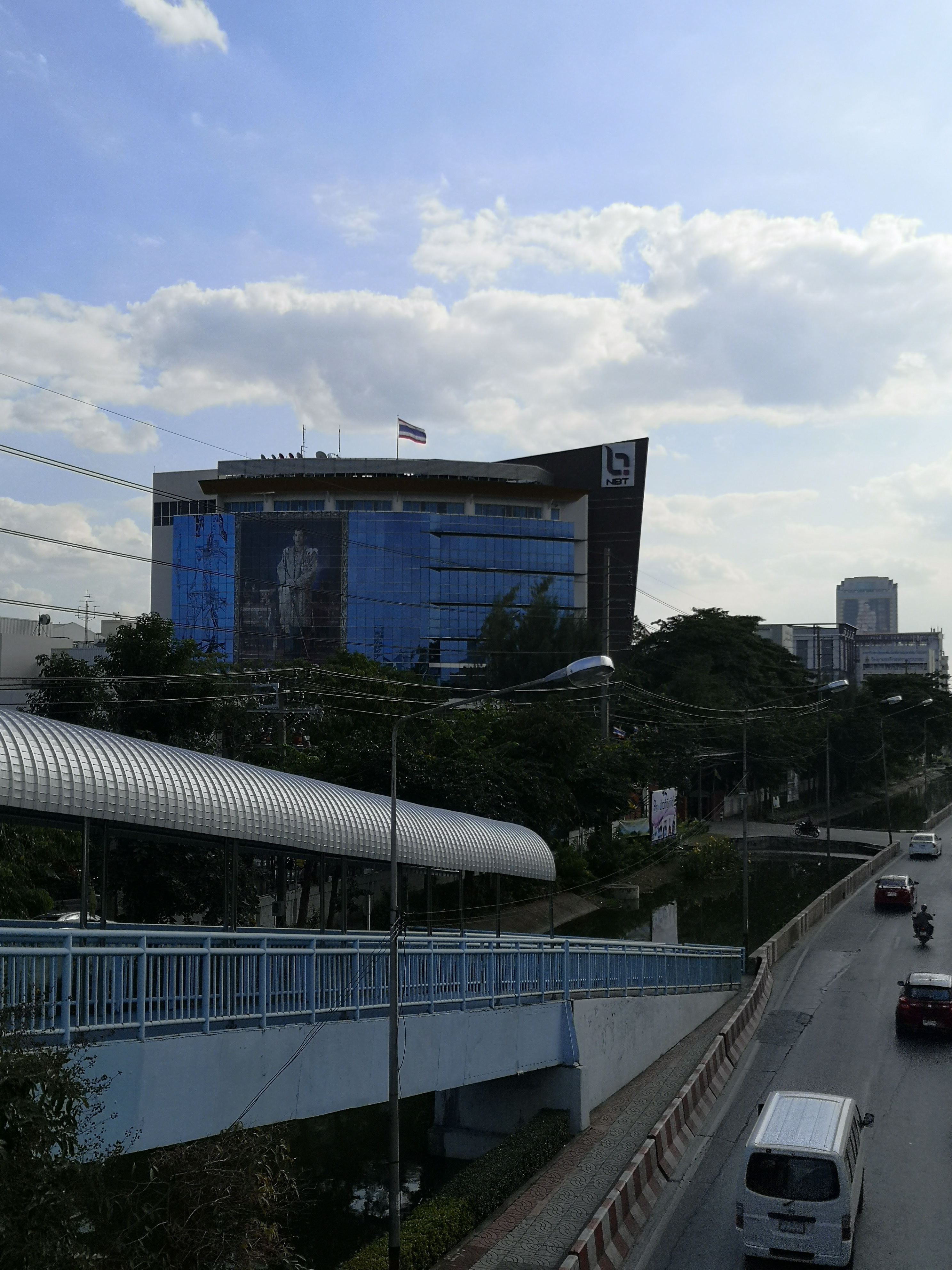 Office building of NBT